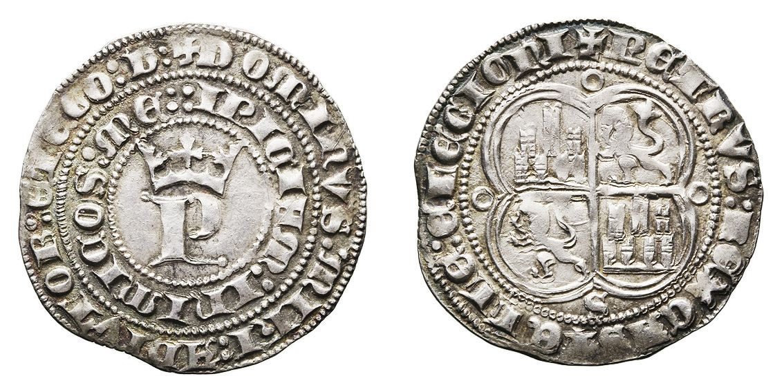 One Spanish real, in silver, from the reign of Peter I of Castile (1350-1369). Minted in Seville. Legends: observse “DOMINVS:MIHI:ADIVTOR:ETEGO:D: / :IPICIAM:INIMICOS:ME:”, short form of verse 7 of Psalm 117 “Dominus mihi adiutor: et ego despiciam inimicos meos”; reverse “PETRVS:REXCASTELLE:ELEGIONI”, .i.e. “Peter king of Castile and of Leon”.